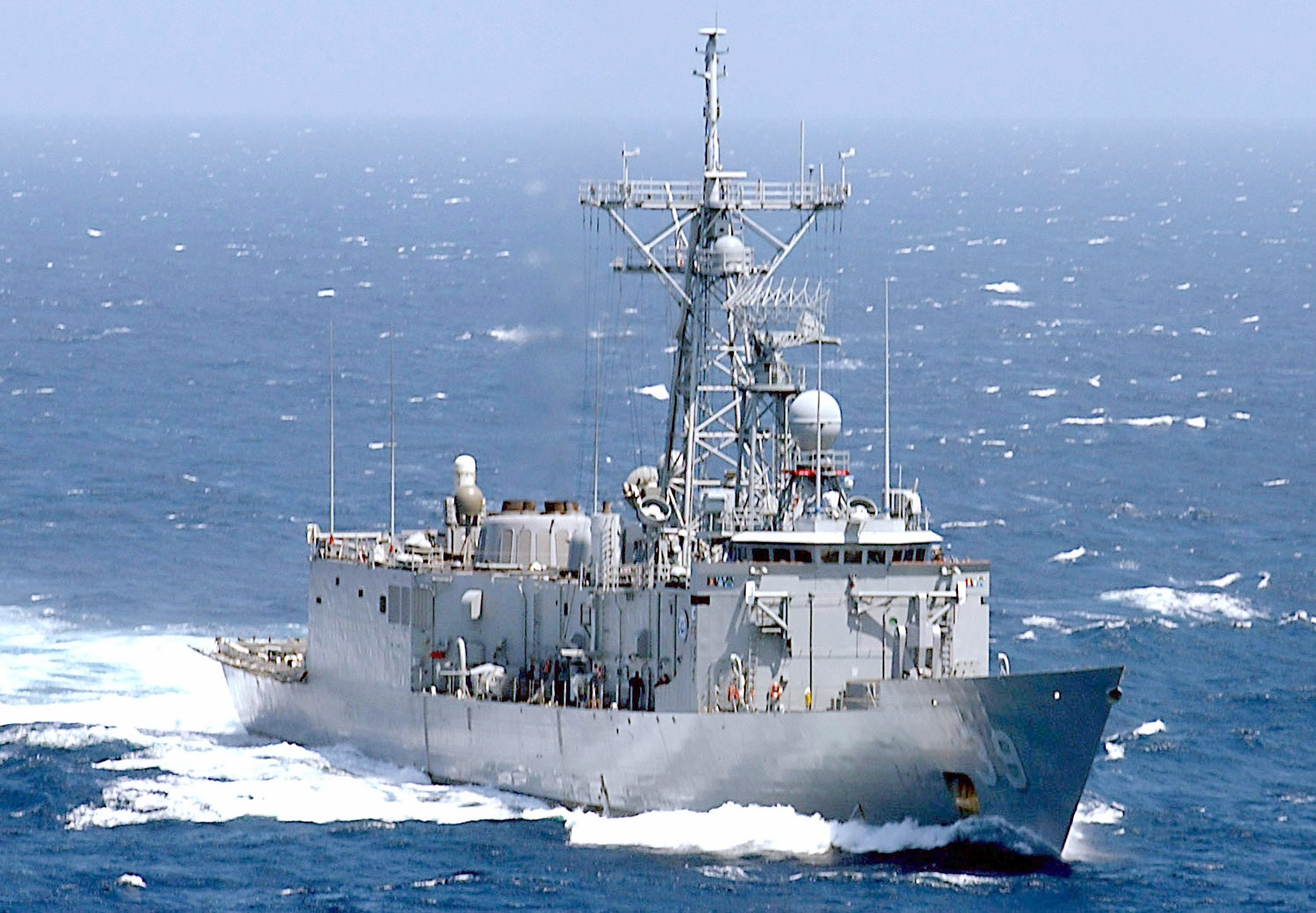 Starboard bow view of the US Navy (USN) OLIVER HAZARD PERRY CLASS; Guided Missile FrigateUSS DOYLE (FFG 39) underway in the Caribbean Sea while participating in the 43rd annual UNITAS exercise. UNITAS 43-03 is the largest multi-national naval exercise conducted with naval forces from the United States, and countries from South and Central America. The exercises focus on building a multinational coalition while promoting hemispheric defense and mutual cooperation.